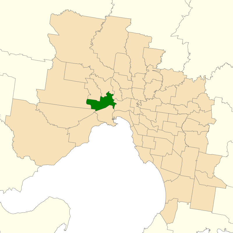 Location of the Victorian electoral district of Footscray (dark green) in the Greater Melbourne area.